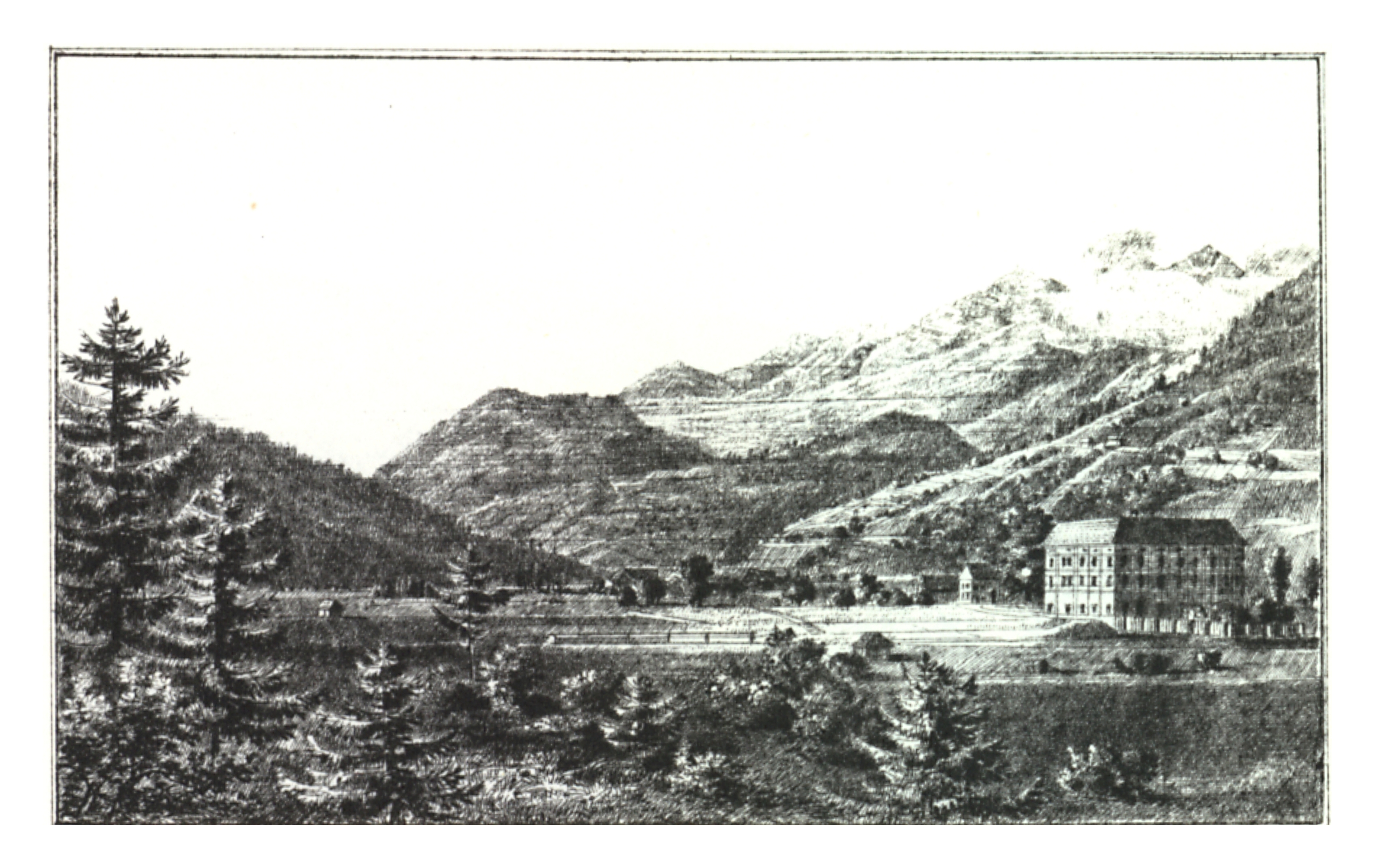 J. F. Kaiser - lithographirte Ansichten der Steyermärkischen Städte, Märkte und Schlösser Graz, 1825 Joseph Franz Kaiser (1786–1859) Alternative names J. F. KaiserDescriptionAustrian printer and editorDate of birth/death 11 March 1786 19 September 1859Location of birth/death Graz (Styria) GrazAuthority control : Q1499963 VIAF: 30629353 ISNI: 0000 0000 3083 0153 LCCN: n87141671 GND: 129880159 NLP: A24960305 WorldCat creator QS:P170,Q1499963 Scanprojekt Community Projektbudget 2012 This scan or this PDF-file was created within the GLAM-project Bookscanning, supported by Wikimedia Germany and Wikimedia Austria as a part of the community-project to capture books, documents and pictures which are not eligible to copyright or for which the copyright has expired. This document describes or depicts an object which is located in Austria today. Send requests for uncompressed scans to Hubertl. This work is in the public domain in its country of origin and other countries and areas where the copyright term is the author's life plus 100 years or fewer. You must also include a United States public domain tag to indicate why this work is in the public domain in the United States. This file has been identified as being free of known restrictions under copyright law, including all related and neighboring rights.